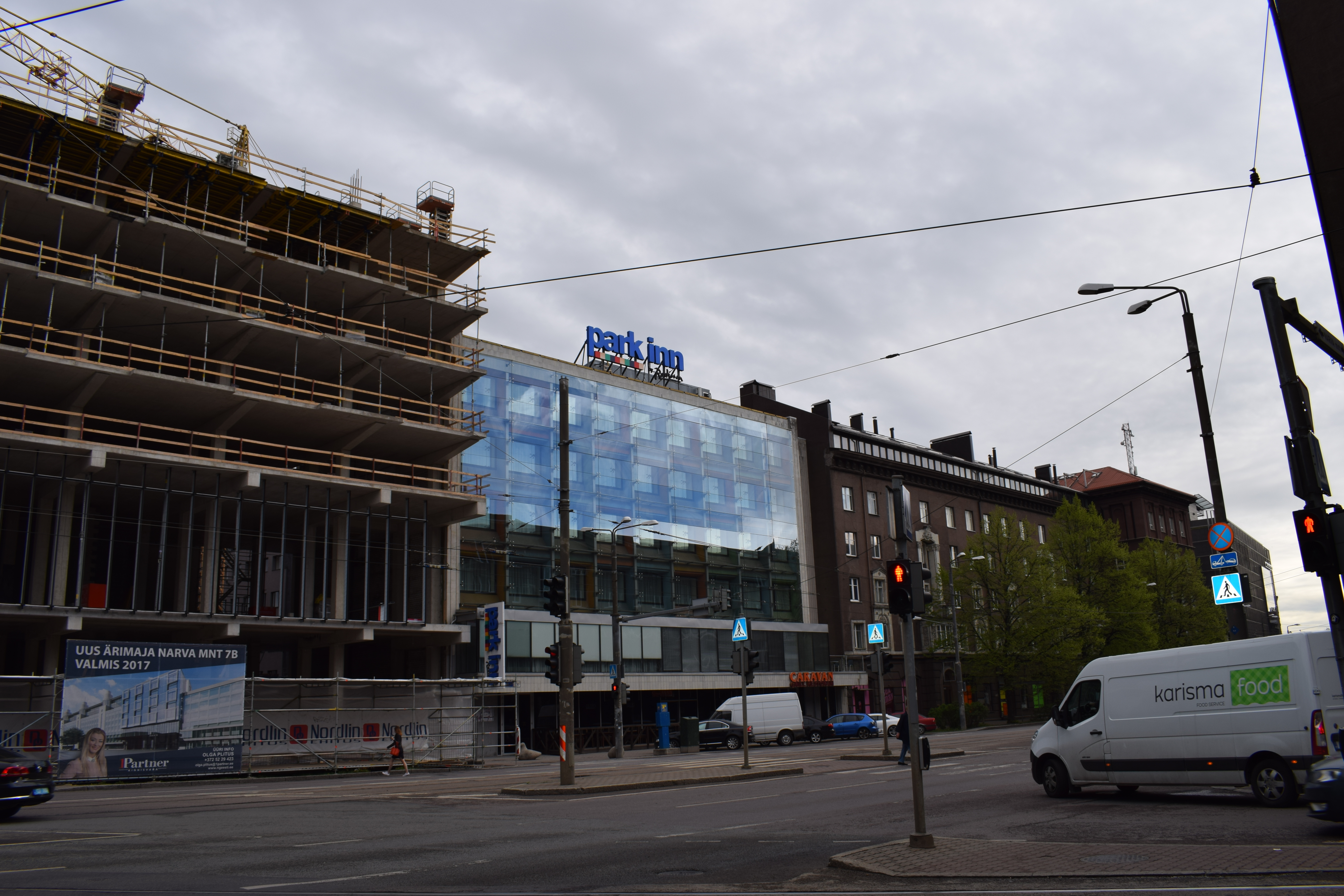 Park Inn by Radisson Central Tallinn